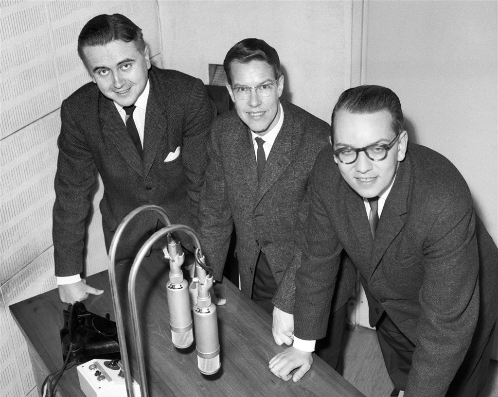 Photograph of three newscasters of Suomen Tietotoimisto news agency: Hugo Ahlberg (1930–1996), Kaj Lindén (1931–2013), and Kaj Wessman.